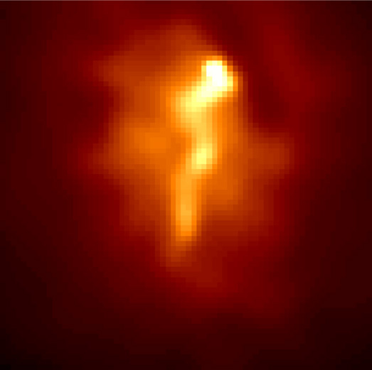 This is a smoothed Chandra X-ray Observatory image of the galaxy cluster Abell 1795. The latest Chandra research on Abell 1795 was conducted by a team led by Professor Andrew Fabian of the Institute of Astronomy, Cambridge, England, using the Advanced CCD Imaging Spectrometer (ACIS) instrument aboard Chandra. Chandra observed Abell 1795 for 19,594 seconds on December 20, 1999, and then for 19,421 seconds on March 21, 2000. Image is 75 arcsec across. RA 13h 48m 52.70s Dec +26° 35' 27". Constellation Boötes. Instrument: ACIS